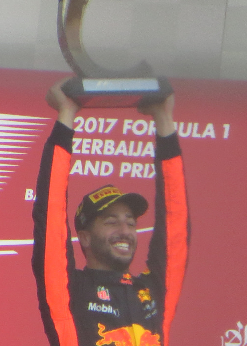 Daniel Ricciardi is celebrating 1st place on Azerbaijan GP 2017